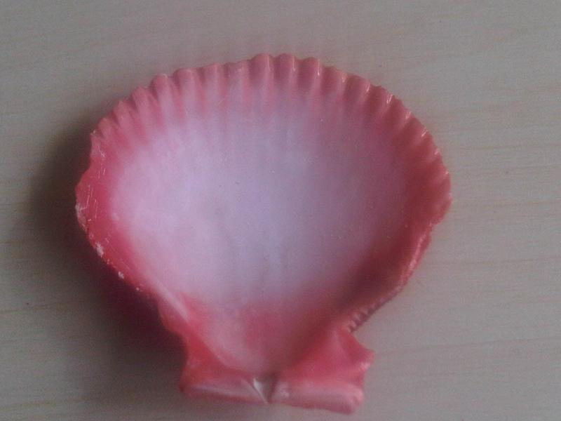 Mimachlamys sanguinea - syn: Chlamys senatoria seen from below, in London, England.